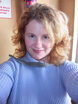 Alida Buckle, previous editor of the community newspaper Weslander in Vredenburg